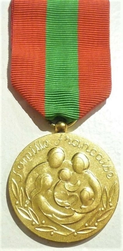 Medal of the French Family, bronze. Obverse. Current issue